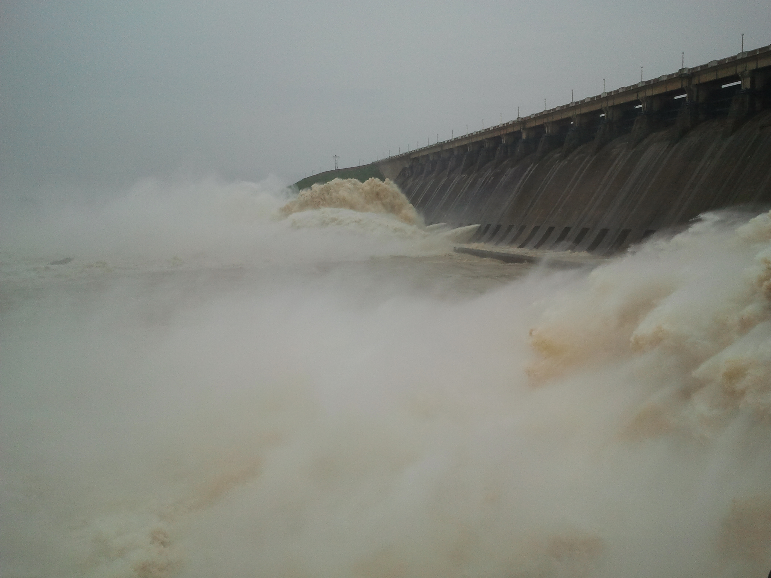 Flood gate of Hirakud Dam